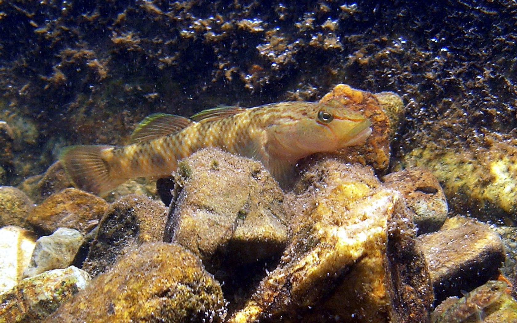 Rhinogobius. Taken at Shōbara, Hiroshima, Japan.